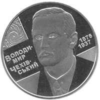 Coin of Ukraine: Volodymyr Chekhivsky